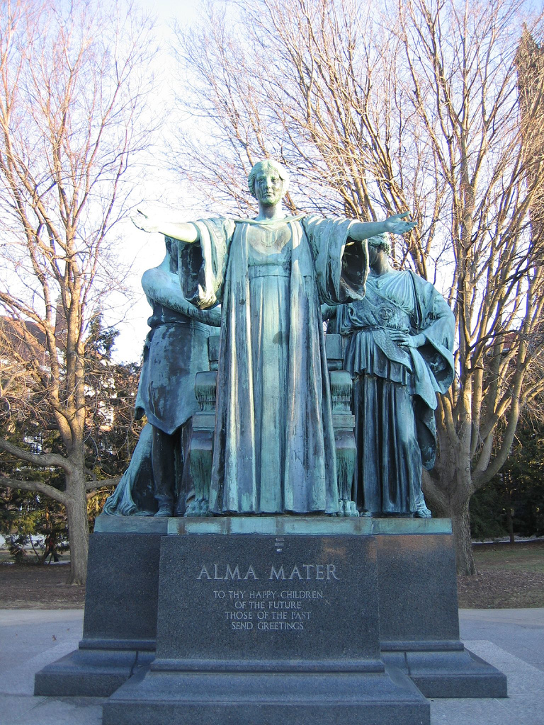 The Alma Mater Statue at the University of Illinois at Urbana-Champaign. Photo taken by Ragib Hasan. Image released under Creative Commons Attribution-ShareAlike license (see below). Any usage of the photo must mention Ragib Hasan as the photographer.